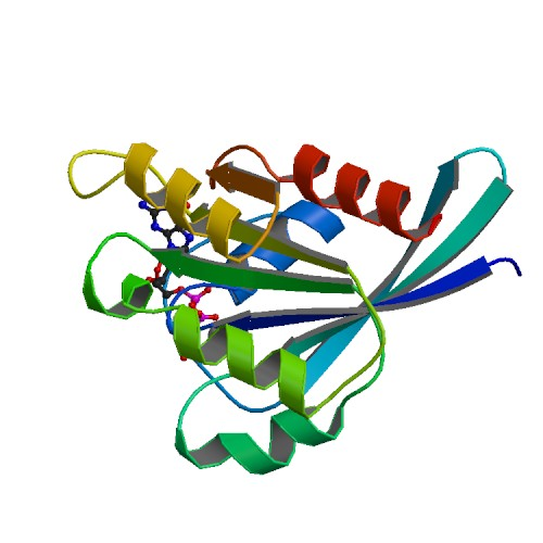 GPPNHP BOUND RAB3A